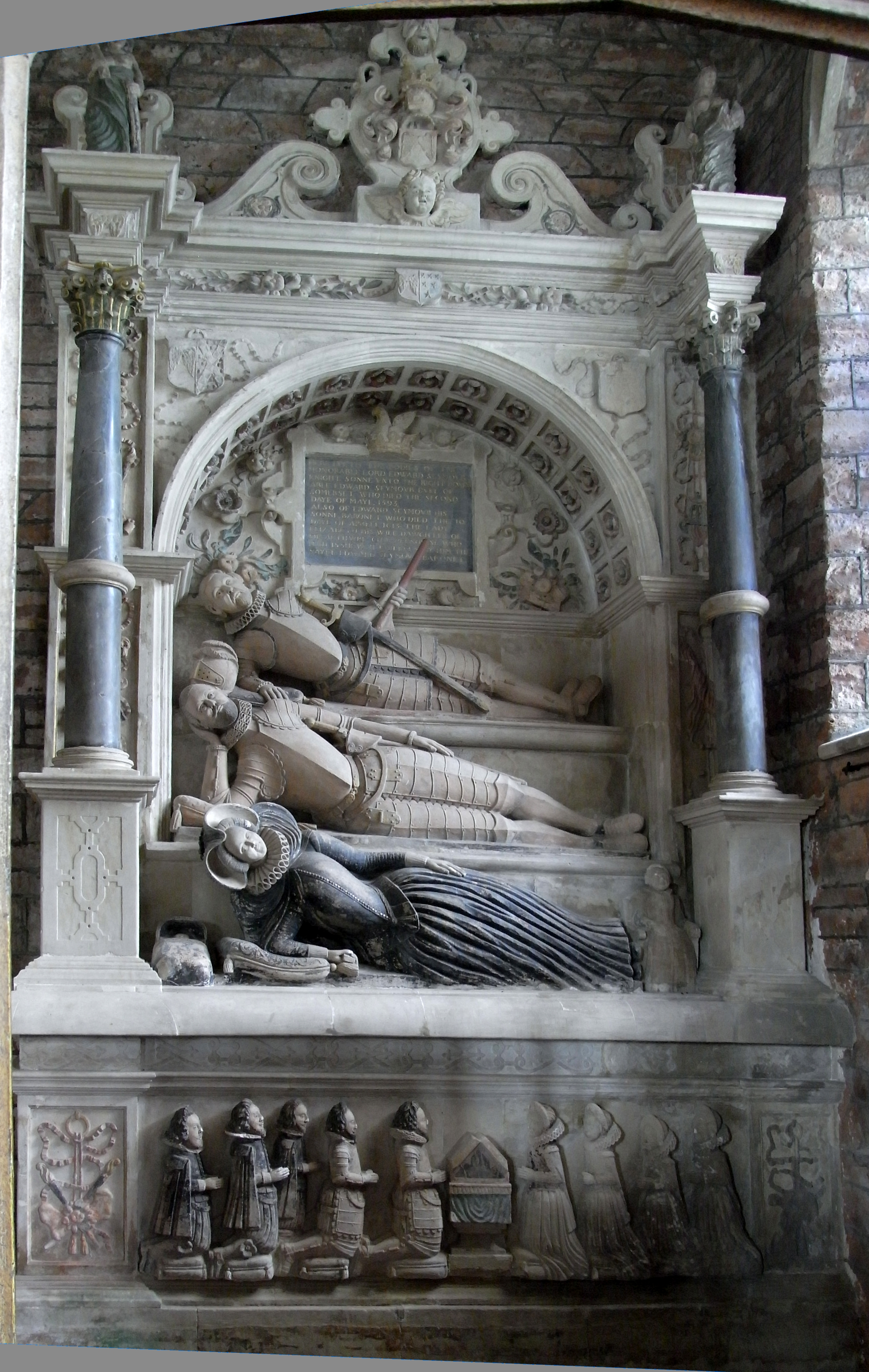 Monument to Lord Edward Seymour (d.1593) of Berry Pomeroy, Devon. North wall of north aisle Seymour Chapel, Berry Pomeroy Church, Devon. Lord Edward is the topmost reclining effigy, below whom is his son Sir Edward Seymour, 1st Baronet (d.1613), and the latter's Wife at the lowest level, Elizabeth Champernowne.